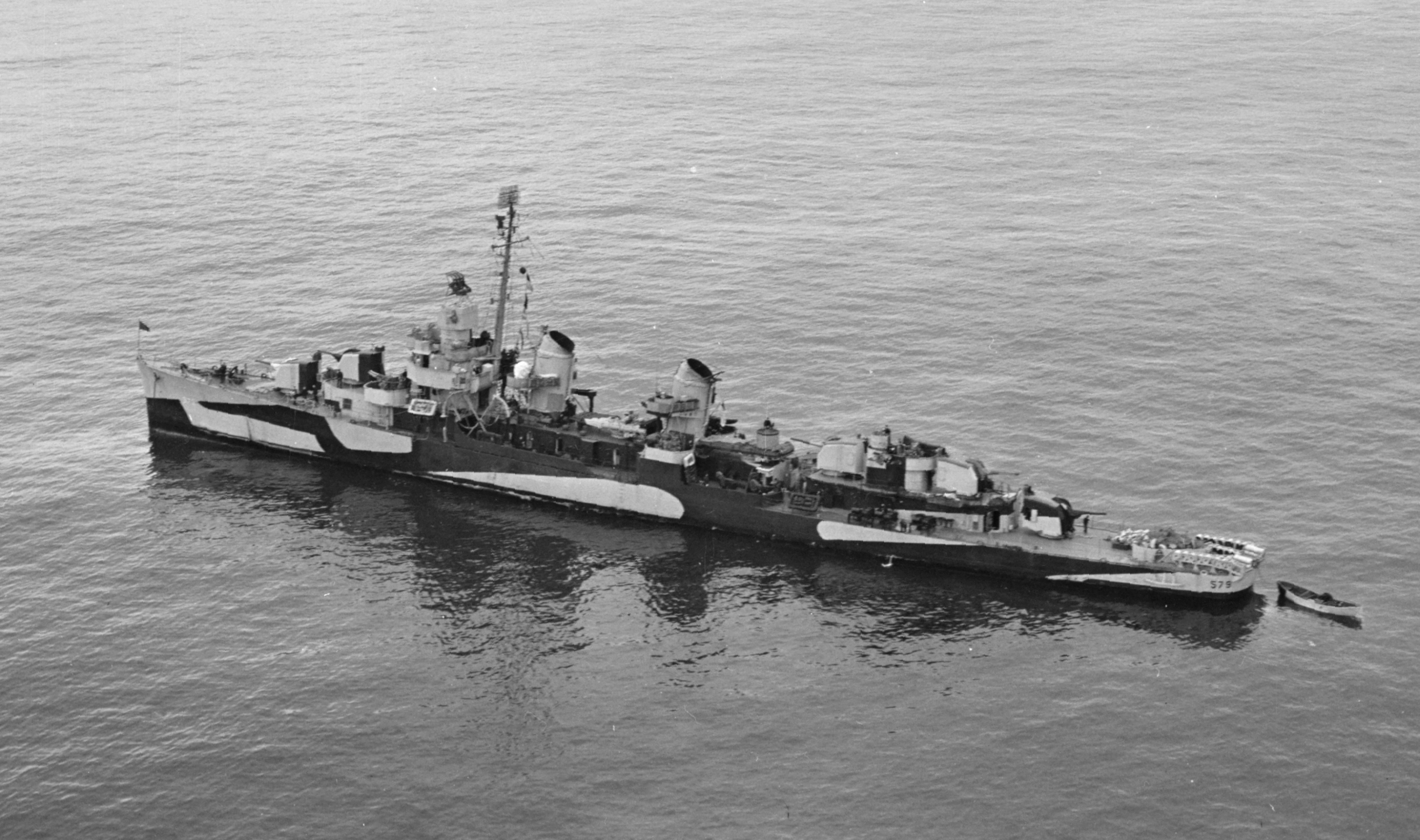 The U.S. Navy destroyer USS William D. Porter (DD-579) in Massacre Bay, Attu, Aleutian Islands, 9 June 1944. Her camouflage is Measure 32, Design 14d.